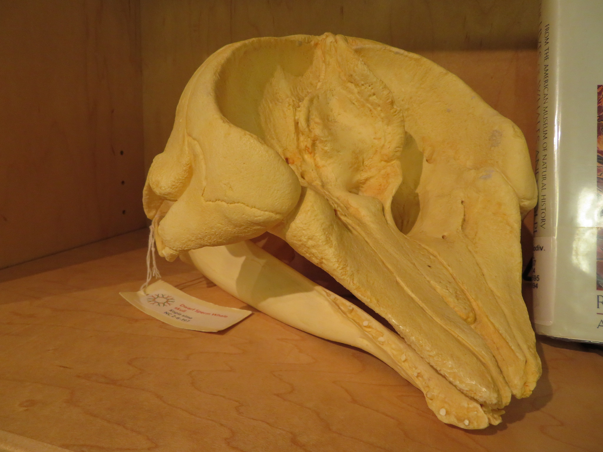 Dwarf sperm whale skull from the California Academy of Sciences San Francisco